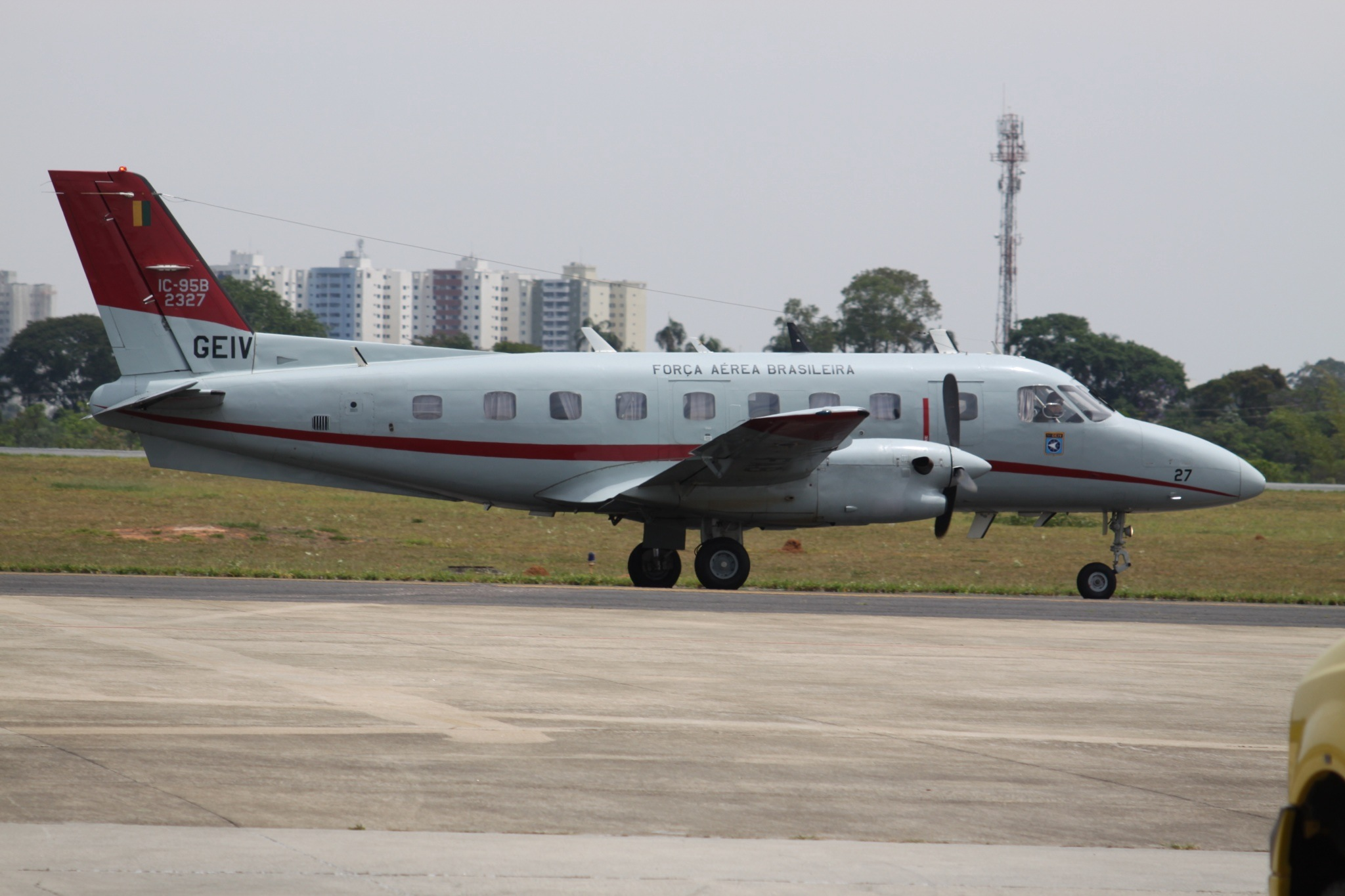 At Sao Jose Dos Campos